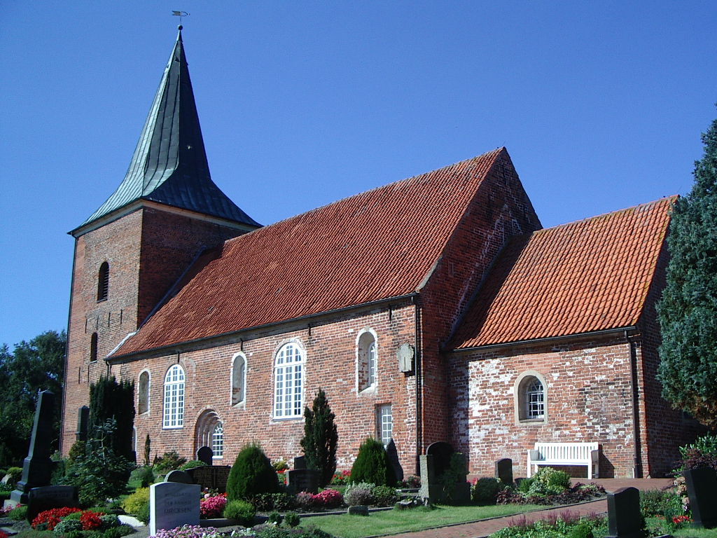 The Evangelical Lutheran St. Catherine's Church in Misselwarden (Land of Wursten), Lower Saxony, Germany. Foto von Benutzer:Geoz 2005